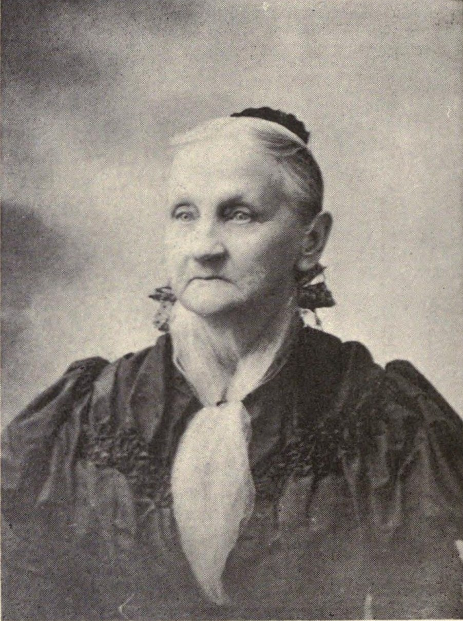 Mrs. Mary Tenney Castle (1819–1907) was the second wife of Samuel Northrop Castle who founded Castle & Cooke. Her estate donated a home to use as Hawaii's first Kindergarten, and another for an orphanage. The foundation continues to make donations, including the building where Barack Obama attended fifth grade.